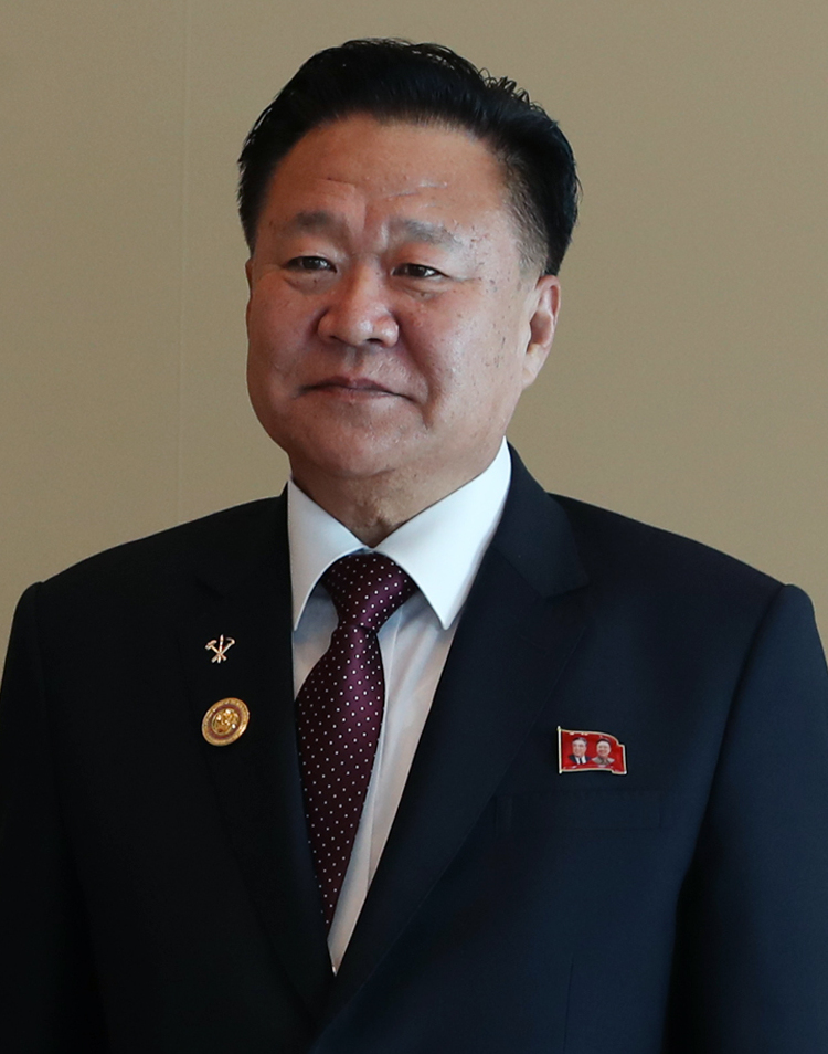 18th Summit of Non-Aligned Movement gets underway in Baкu